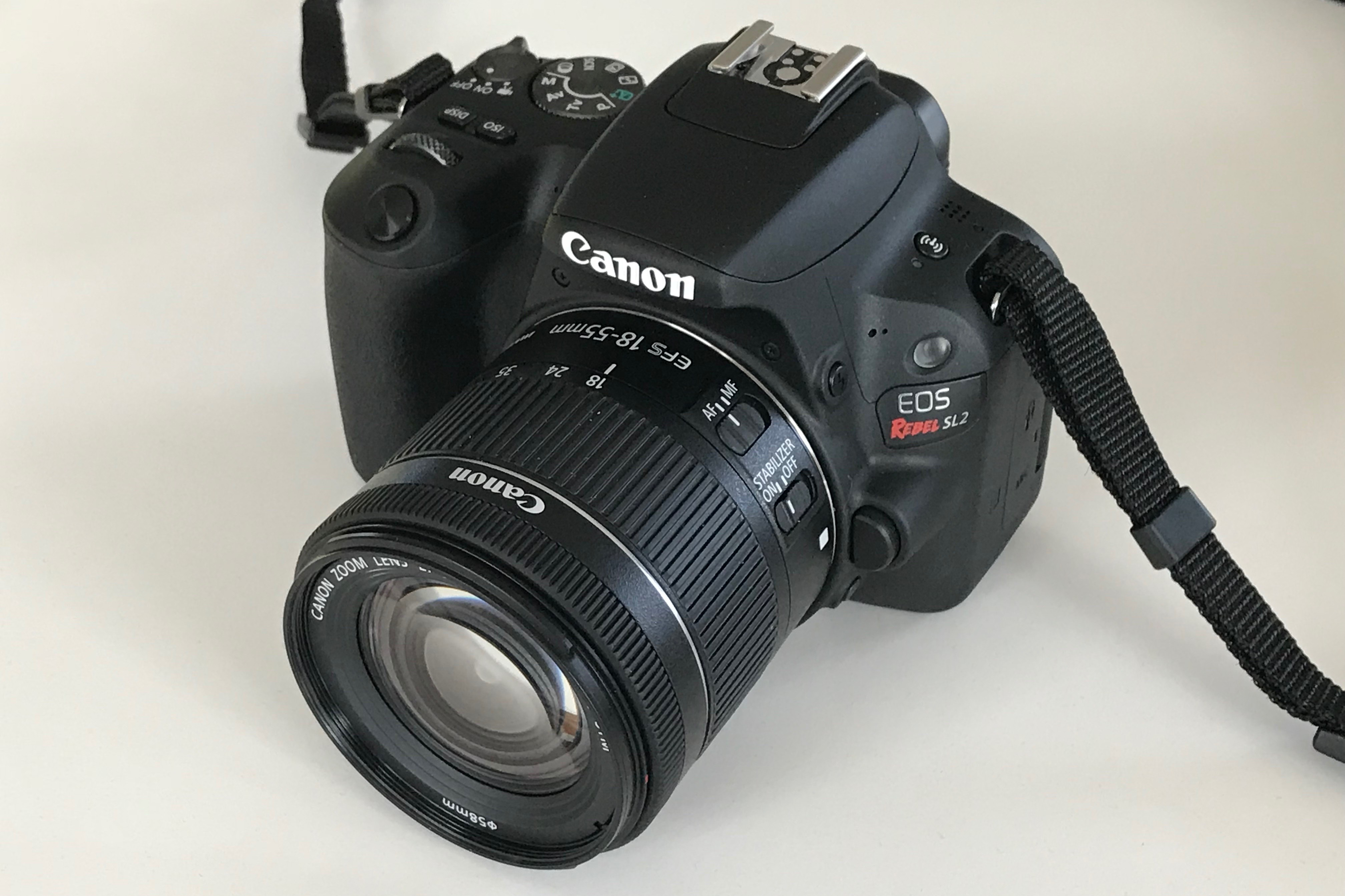 View of the Canon EOS Rebel SL2, also known as the Canon EOS 200D.